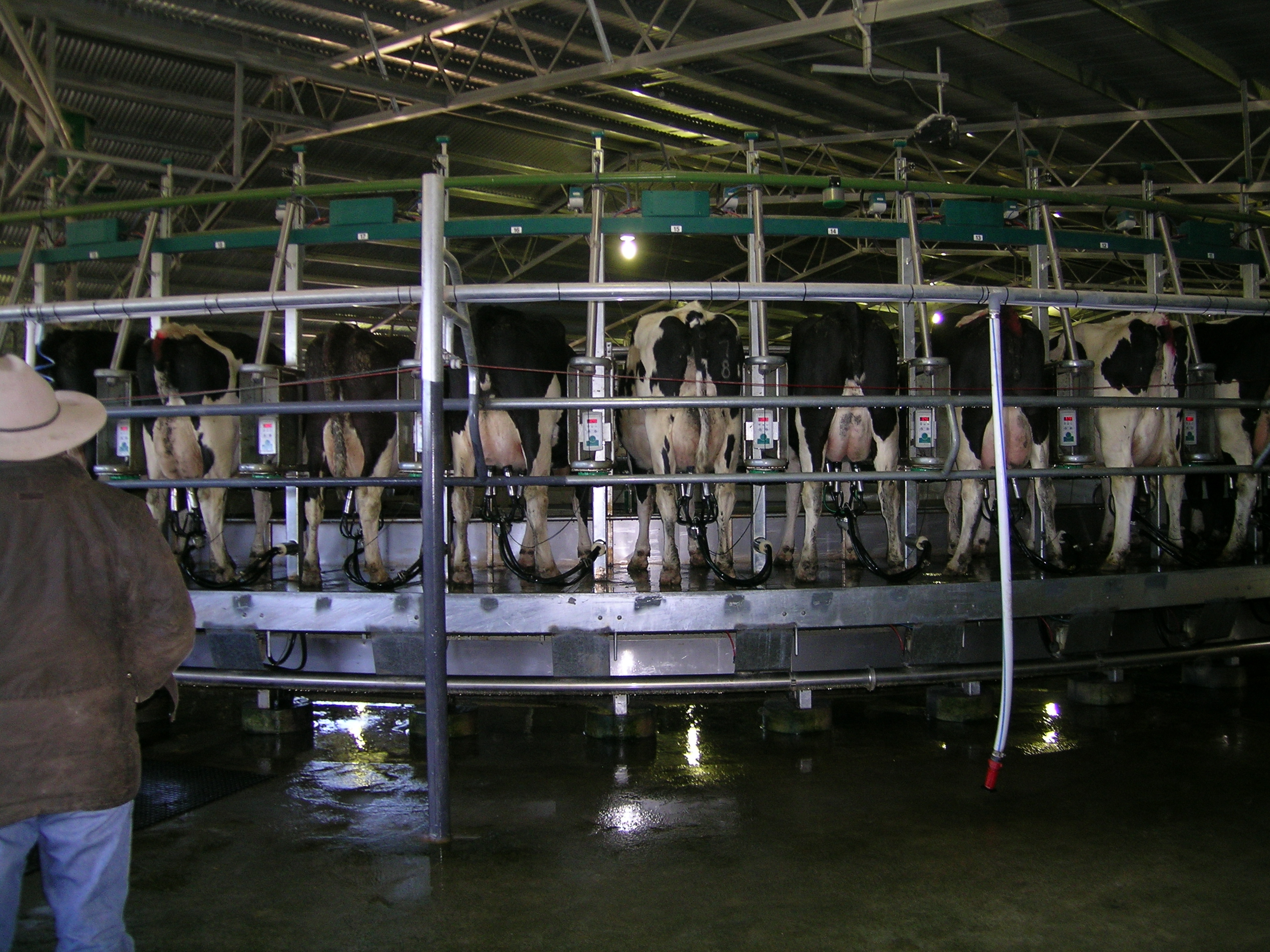 This 80-stand rotary dairy in Northern Tablelands, New South Wales, is fully computerised and records milk production and conductivity and can detect any abnormalities like mastitis. It then automatically drafts those cows into a separate pen.